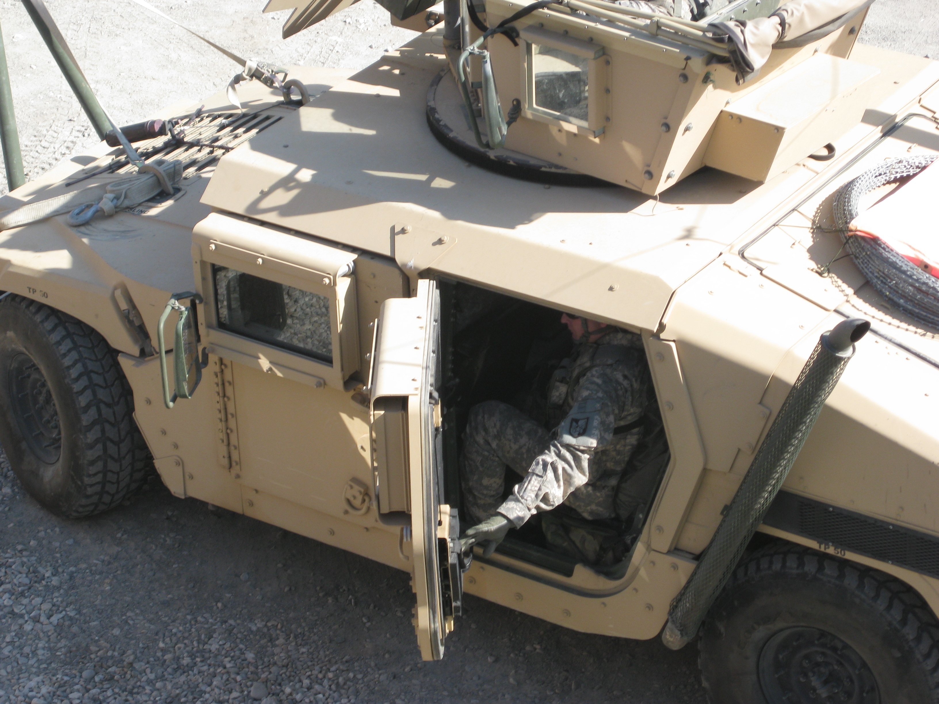 The military did something very clever -- it brought a group of National Guardsmen who are farmers in as special advisors on agricultural reconstruction. They came by the Taj for an informal briefing on our work, and I was really impressed with their knowledge, insight, and compassion for the Afghans. I believe the up-armor in this picture is of the Frag Kit 6 varietal. You can see the extra armor with the door open.